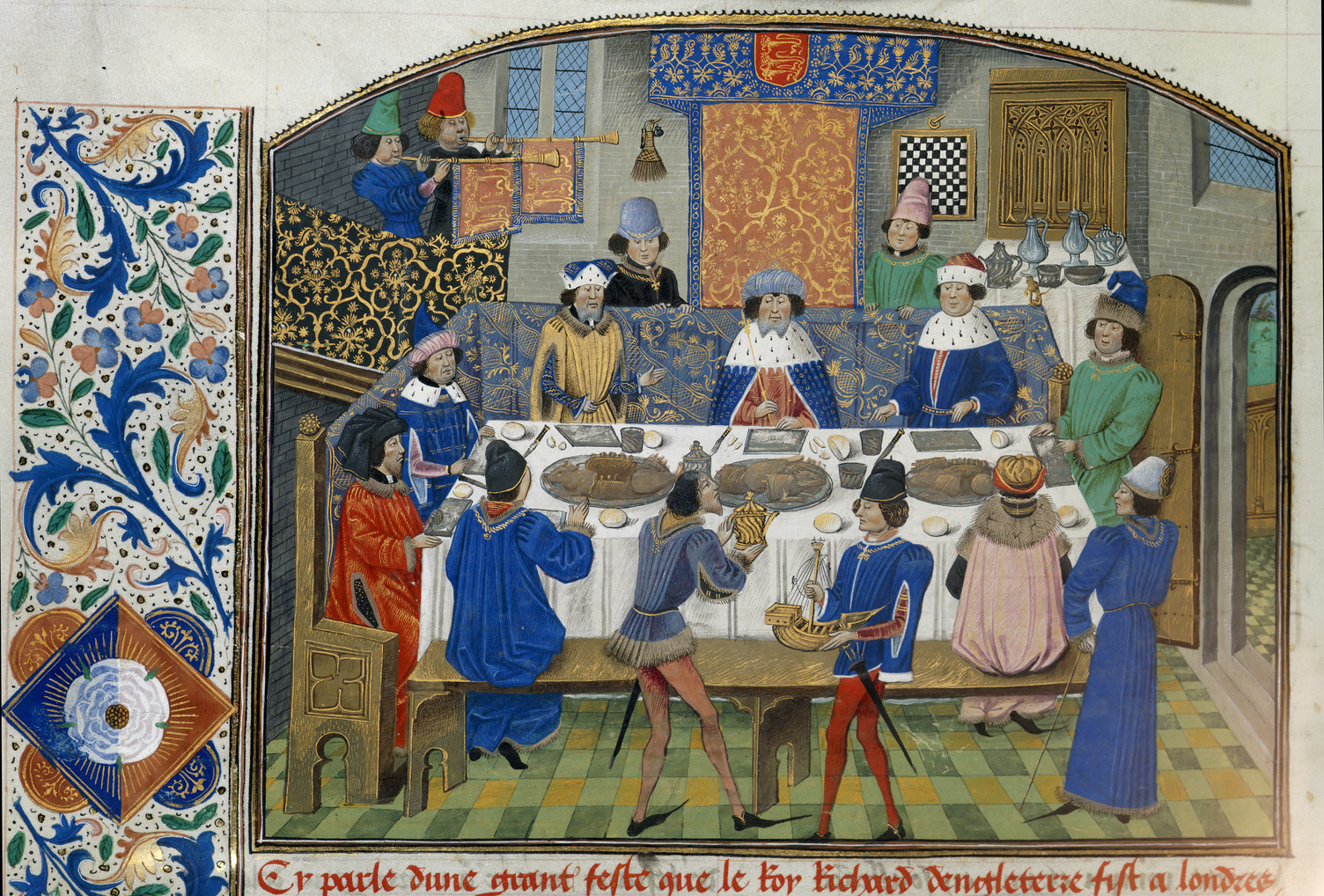 Richard II dines with dukes (Miniature) The Dukes of York, Gloucester and Ireland dine with King Richard II.